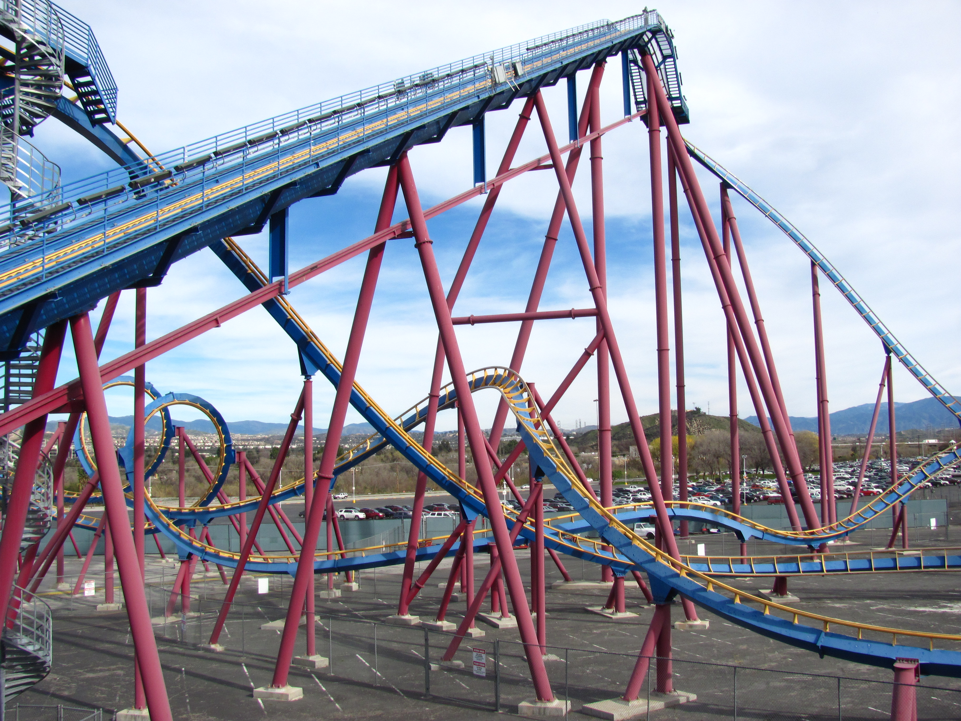 Scream! at Six Flags Magic Mountain.